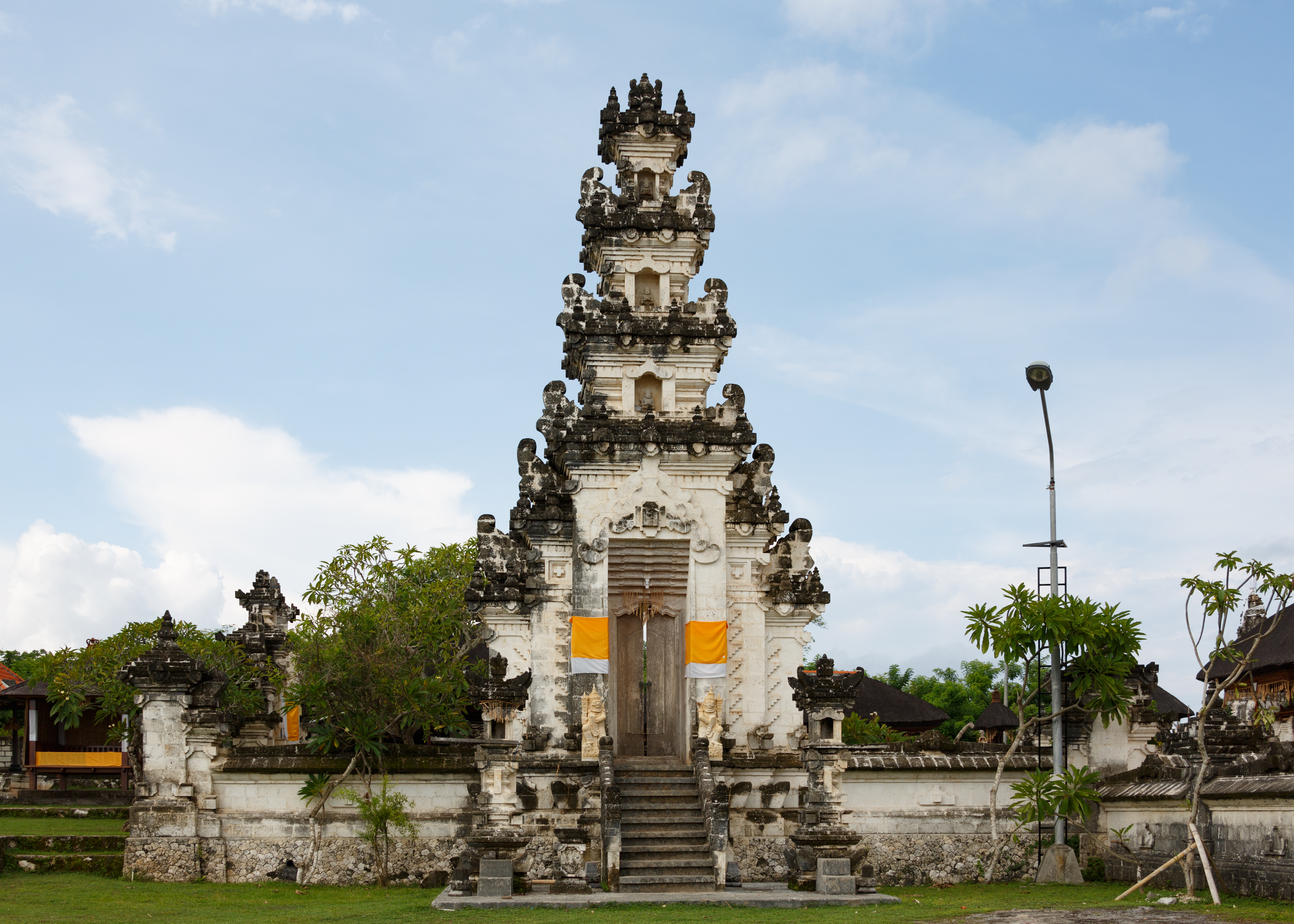 Kuta, Bali, Indonesia: Pura Gunung Payung, a balinese hindu temple.